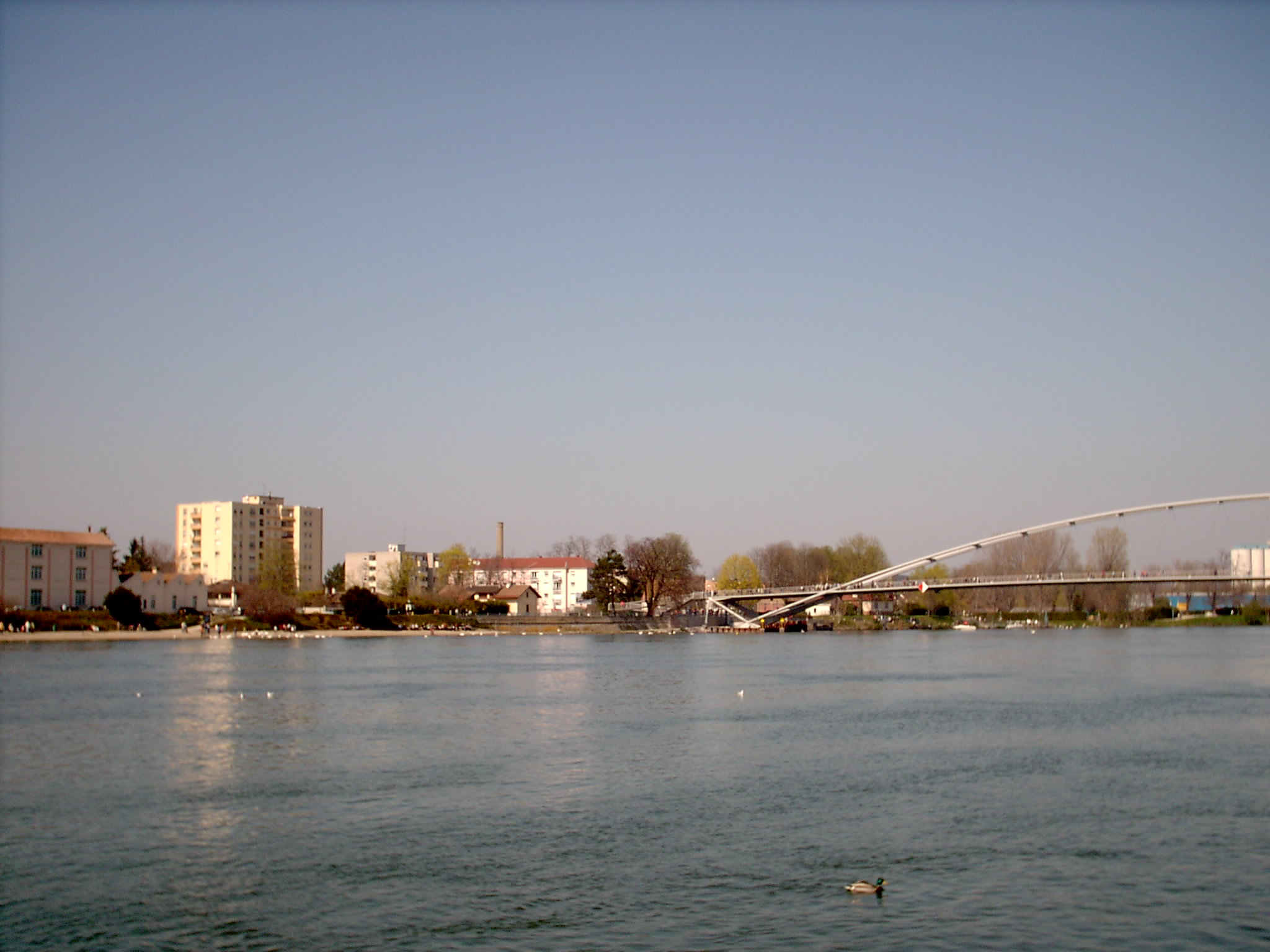 The Town Huningue and the Three Country Bridge with the Rhine photografed from the Three Country Corner of Basel.